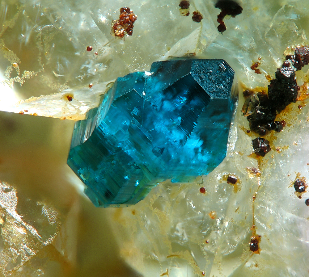 Spangolite Locality: Blanchard Mine (Portalas-Blanchard Mine), Bingham, Hansonburg District, Socorro County, New Mexico, USA (Locality at ) Picture width 2.5 mm. Collection and photograph Christian Rewitzer